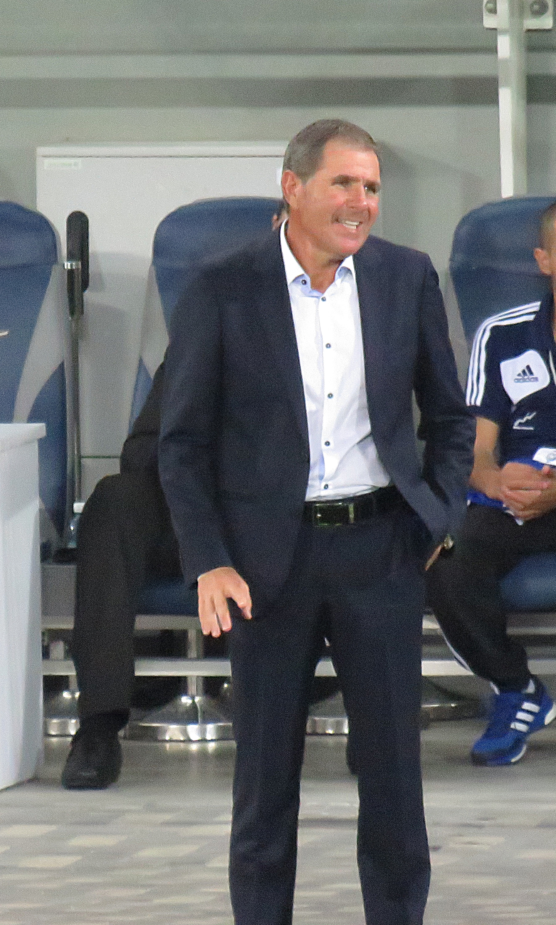 Israel vs. Andorra - September 3, 2015